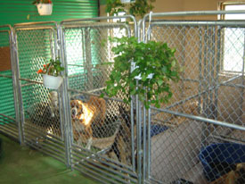 Our boarding kennel in Wakefield QC is called Kare Free kennel and has been established in 1999. Integrity and experience is our strong assets as well as a great love for dogs. Please visit our web site for more details.